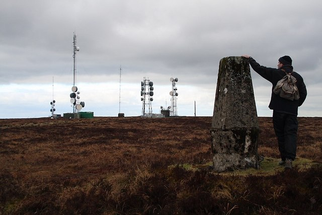 Trig point Summit trig point of Woolftrap Mountain and nearby masts.